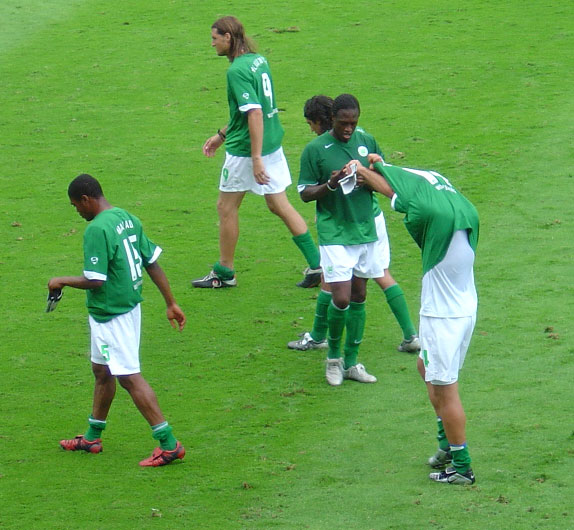 VFl Wolfsburg. Photo by Mangan2002 July 17 2005